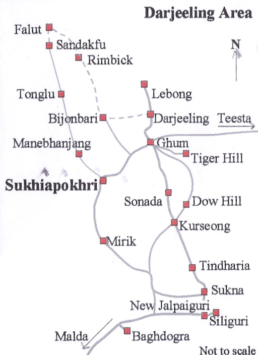 Sukhiapokhri map.